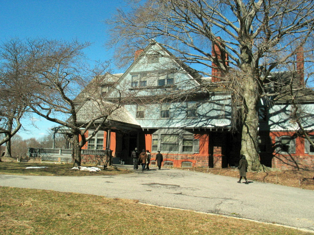 Theodore Roosevelt's house he called "Sagamore Hill," in Oyster Bay. This is now a National Historic Site.